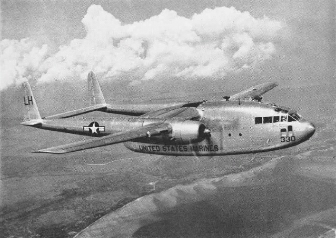 A U.S. Marine Corps Fairchild R4Q-1 Flying Boxcar (BuNo 124330) of Marine transport squadron VMR-252 Otis in 1950. The R4Q-1 was identical to the USAF C-119C.